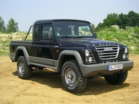 IVECO Massif Pickup